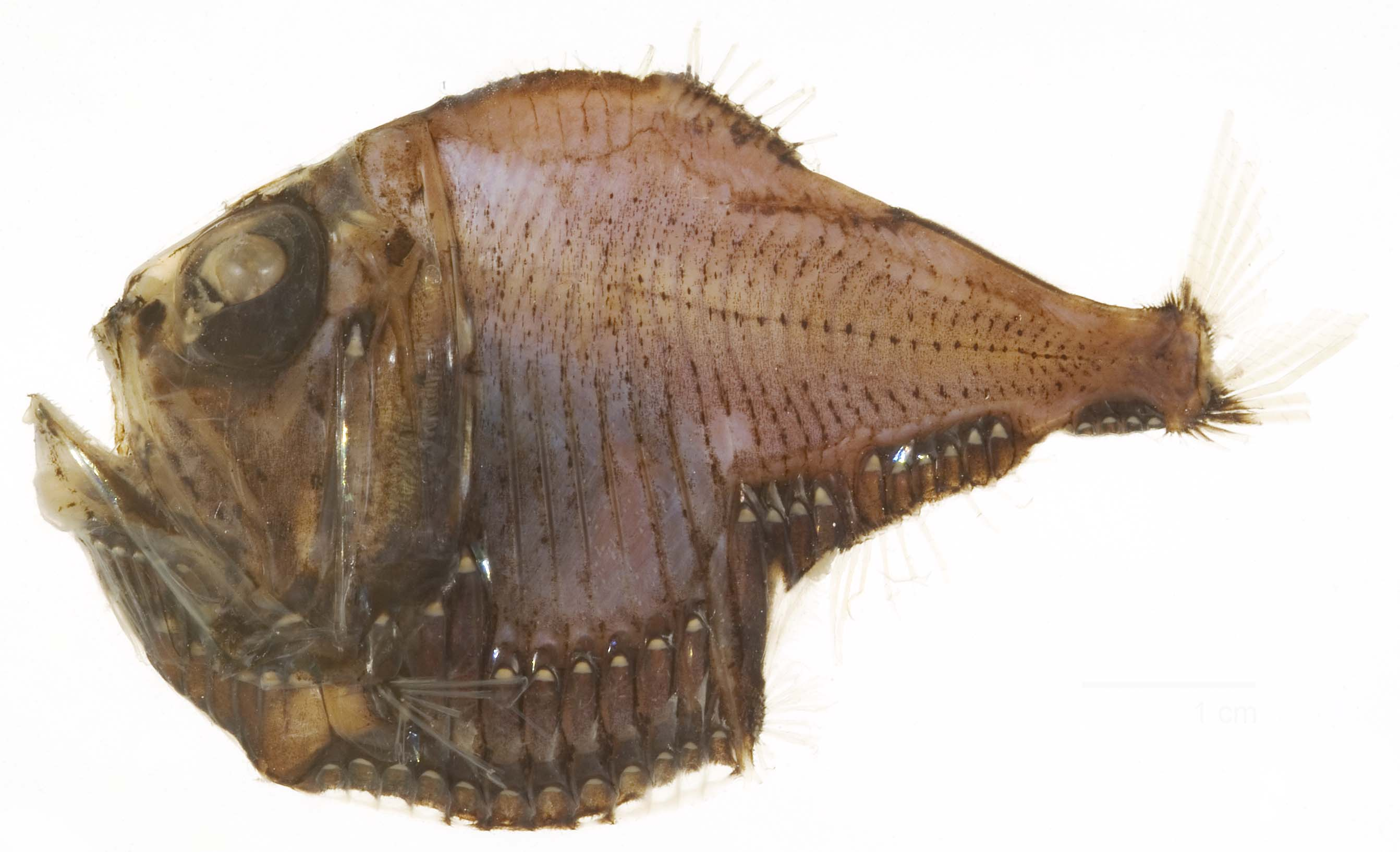 Argyropelecus lychnus